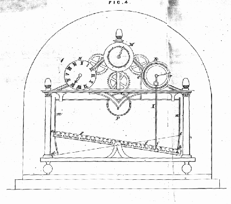 Congreve's Rolling Ball Clock Patent, No. 3164 (1808)